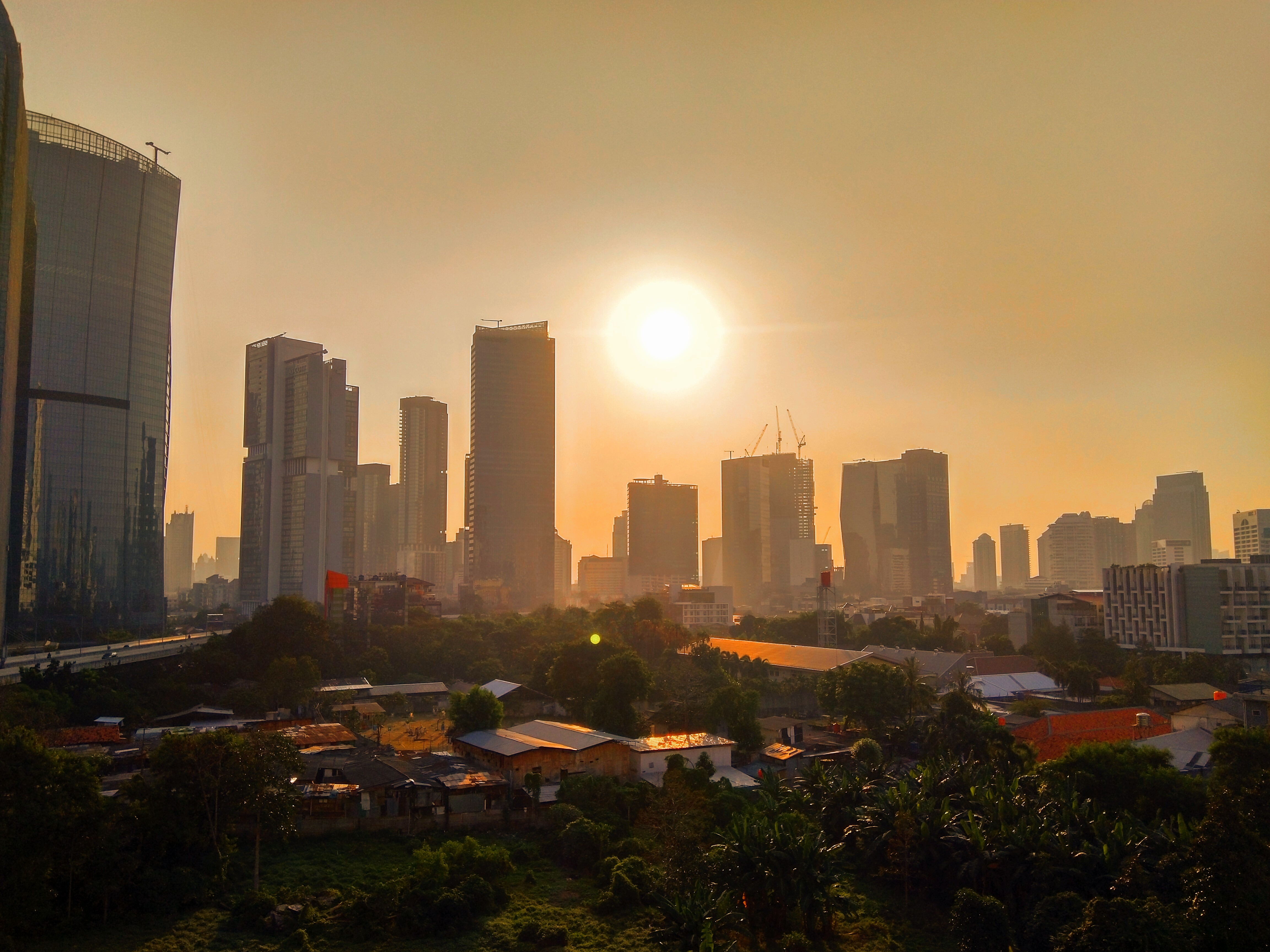 This is a view of Jakarta's skyline during golden hour